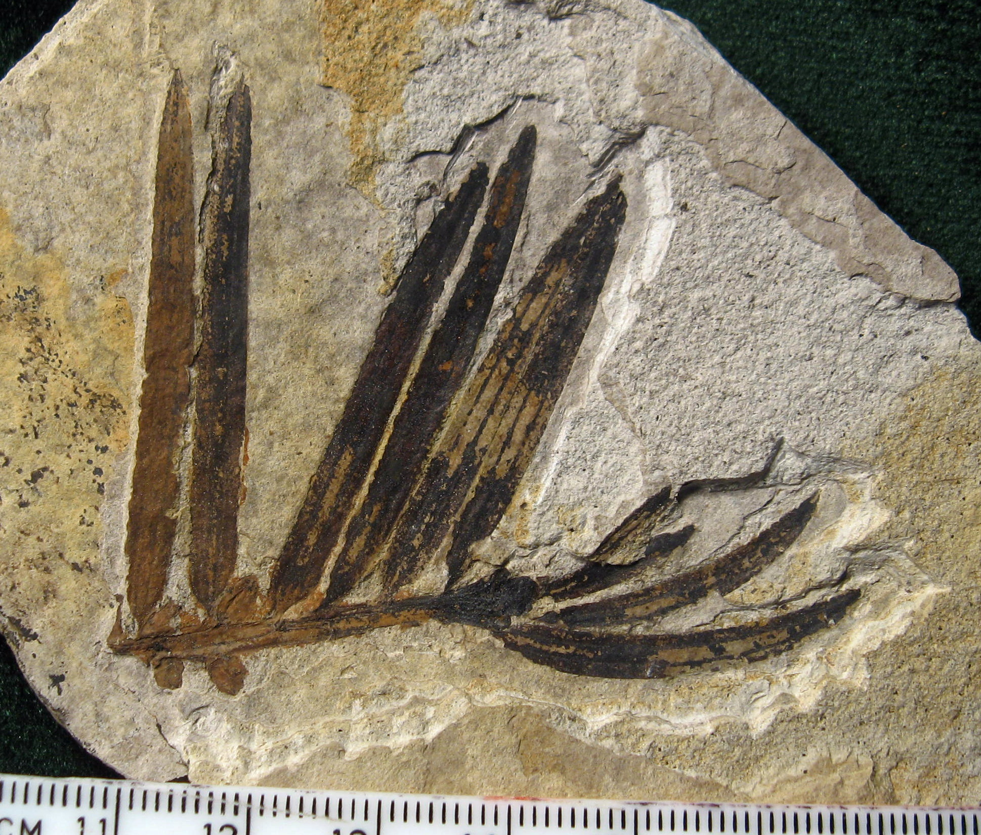 A 6.2cm wide Amentotaxus twig with needles. Klondike Mountain Formation, Republic, Ferry County, Washington, USA, Eocene, Ypresian, 49 million years old. Stonerose Interpretive Center Collection #